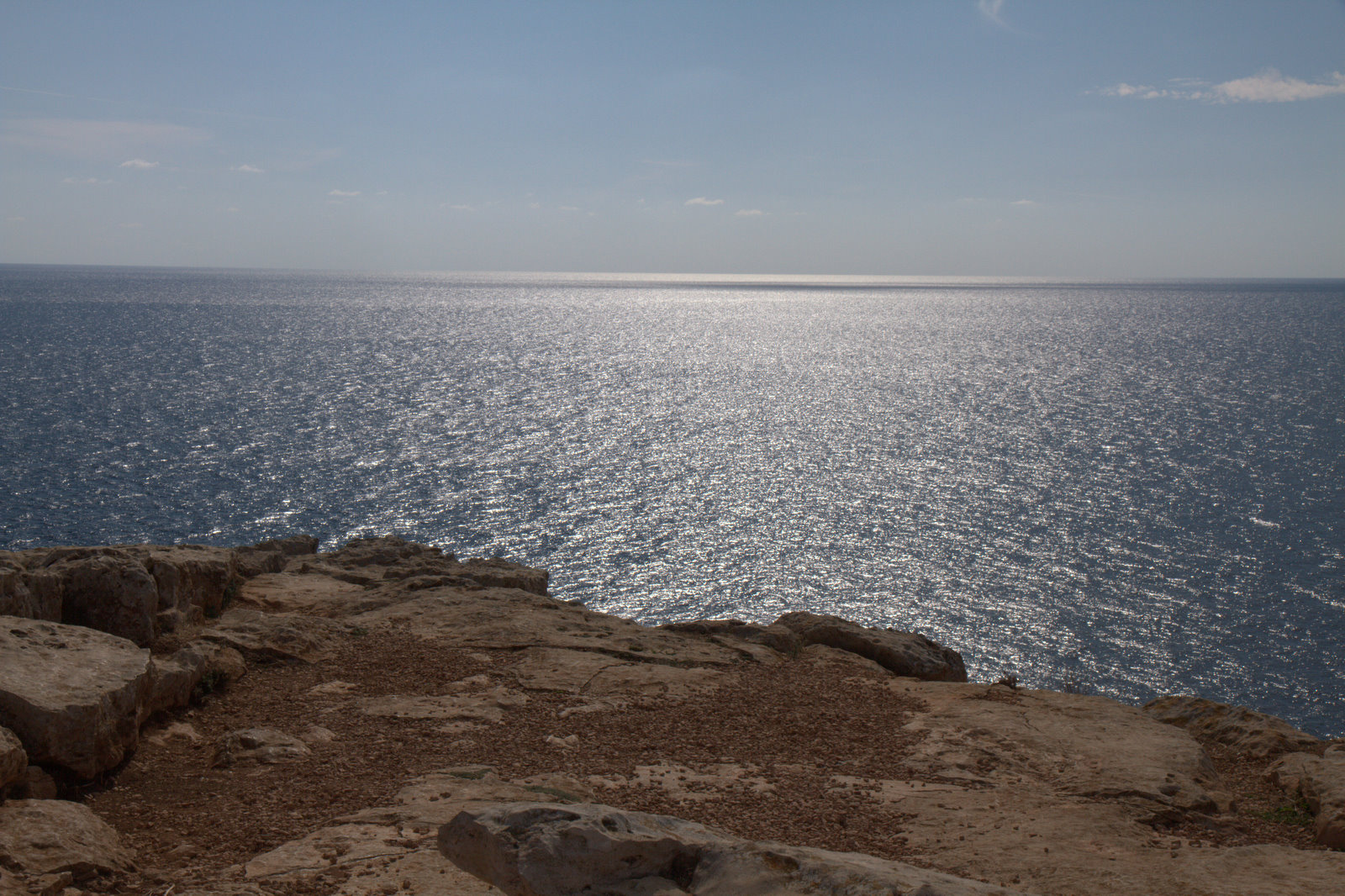 This reminds me of Cape Reinga (New Zealand)